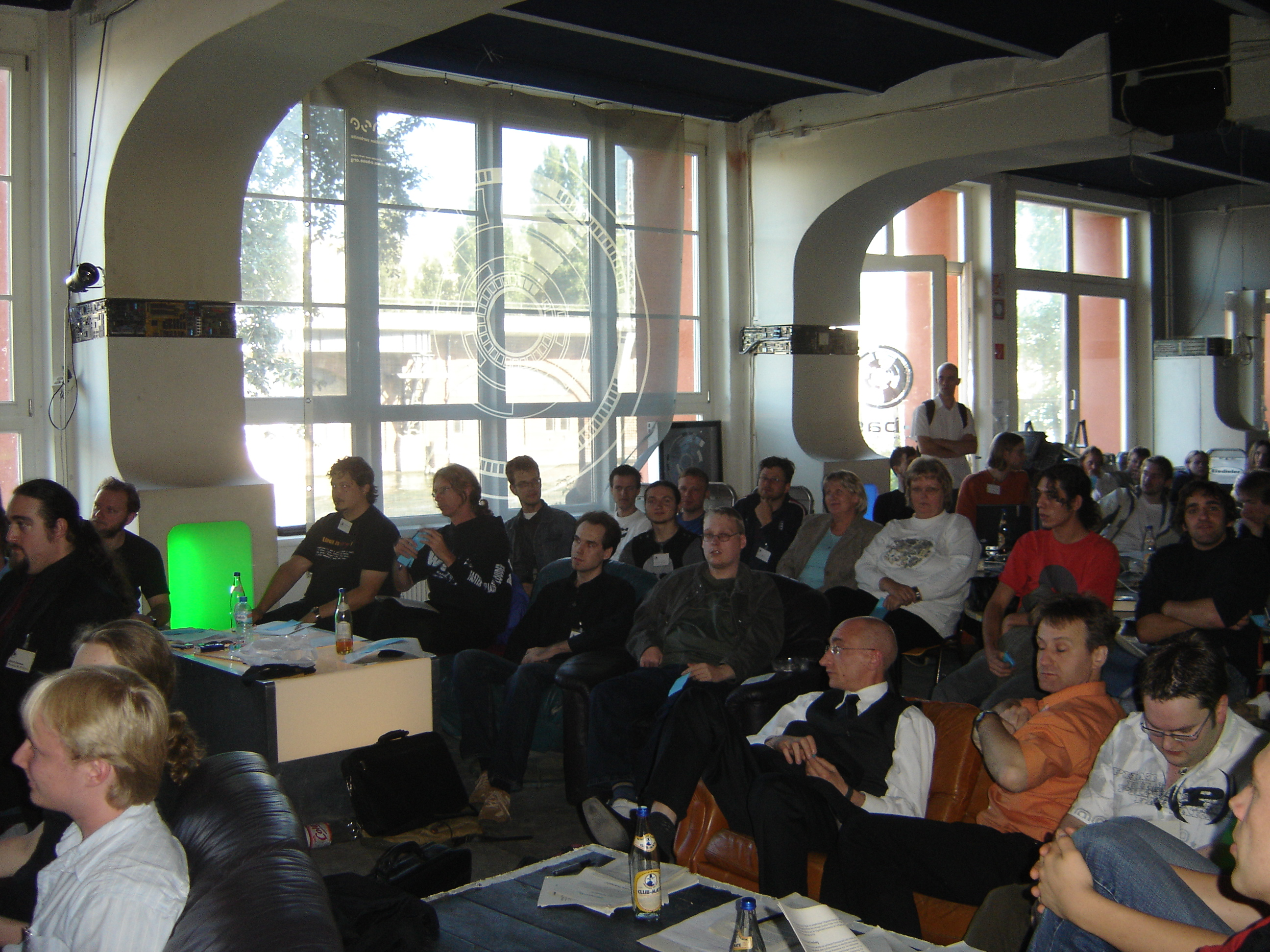 Founding members of the German Pirate Party (Piratenpartei)